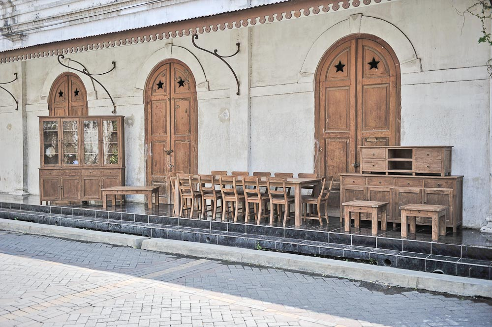 Teak furniture in old city center of Semarang, Indonesia